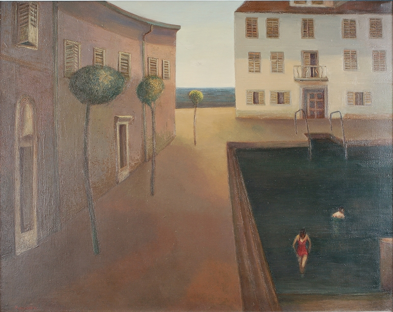 "Summer" painting, oil on canvas, 1983. Nevenka Rajković (1949-2005) painter from Serbia